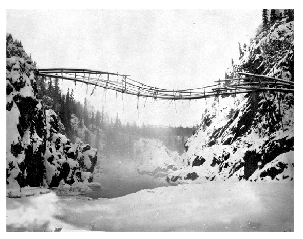 Photographer:Charles Horetzky Photo take:December 1872 Source BC Archives #[1]